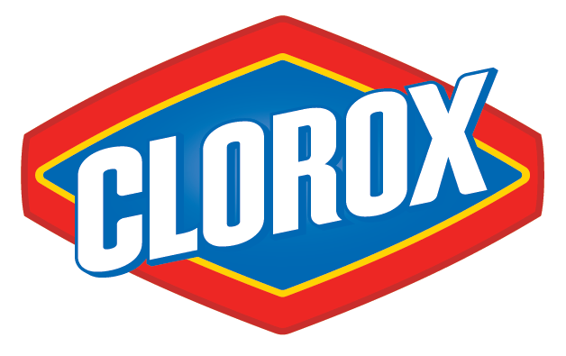 Clorox logo for consumer-facing brands (not to be confused with the corporate mark)